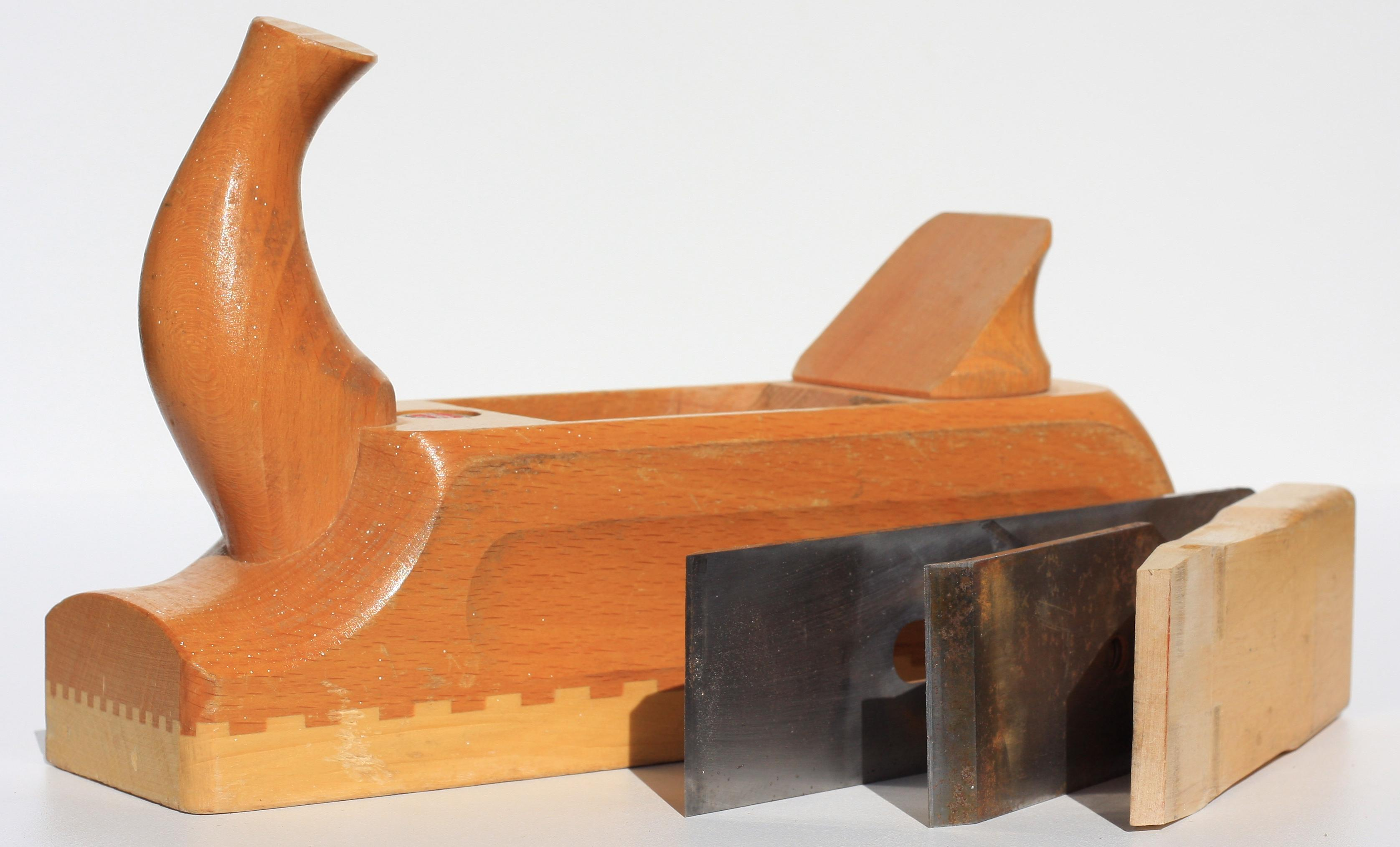 its a tool for working with wood